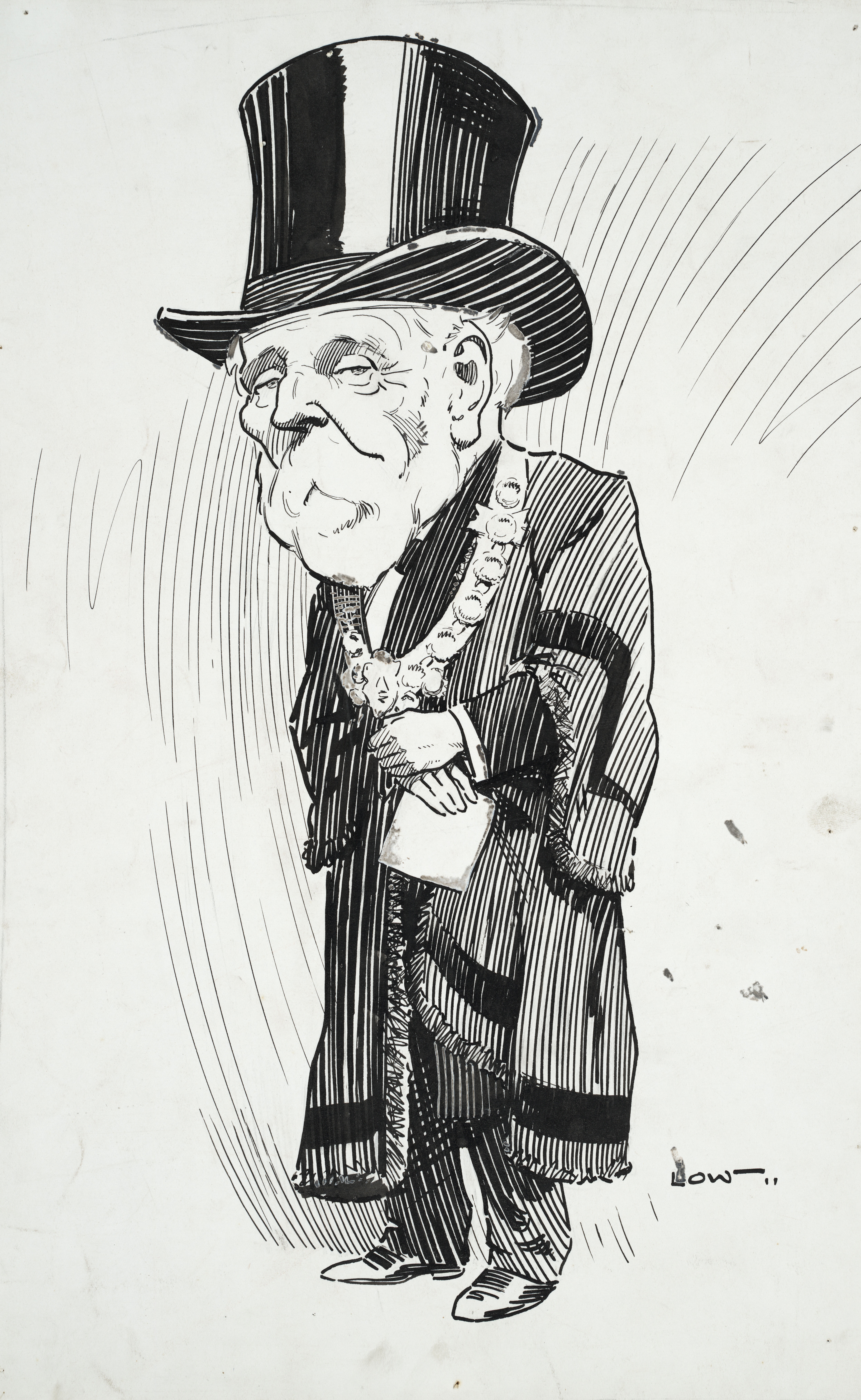 Standing portrait of the Mayor in his robes of office with cloak, mayoral chain and a top hat. He is holding a sheet of paper in his right hand. Quantity: 1 original cartoon(s). Physical Description: Ink 481 x 300 mm